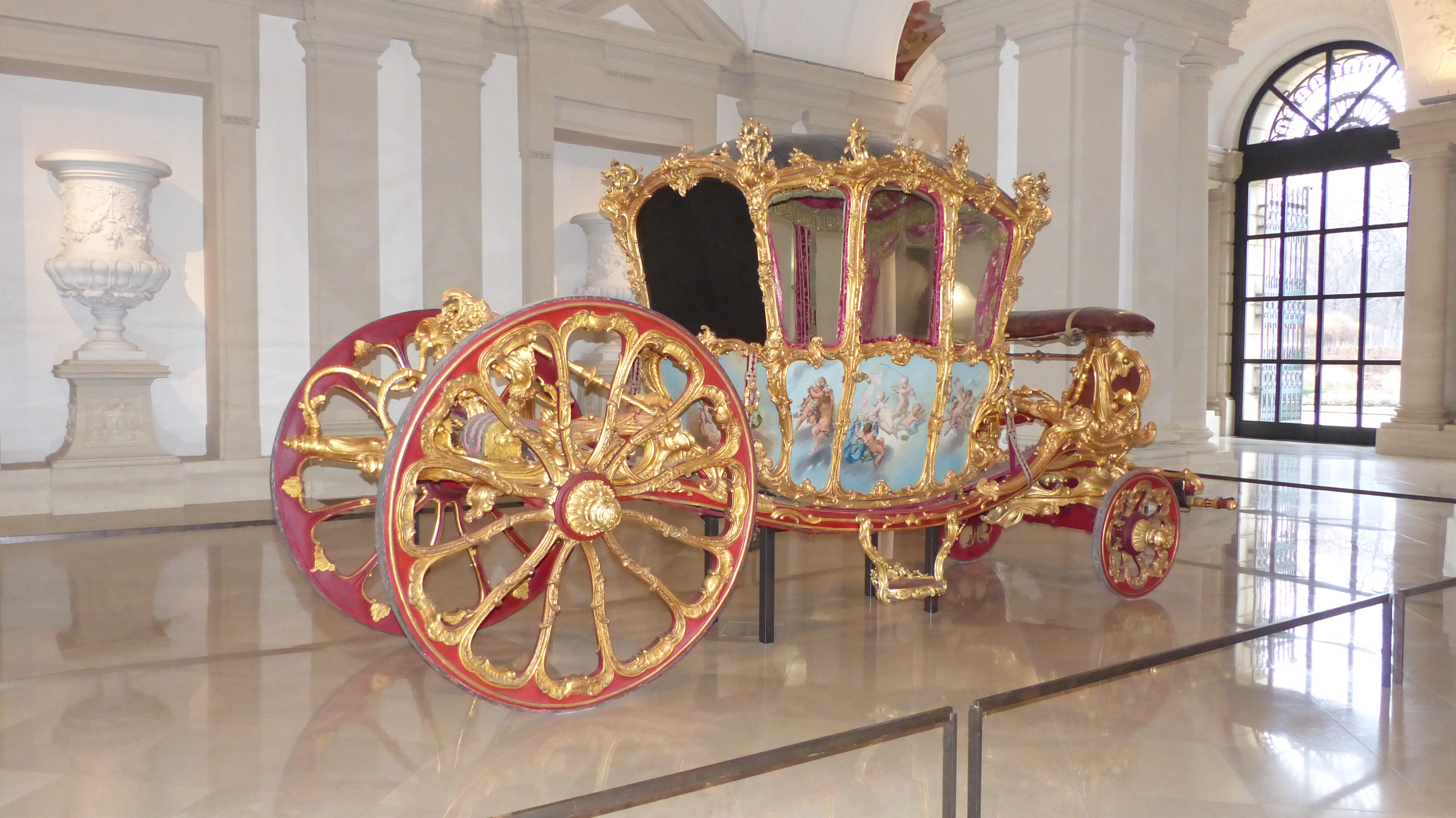 Golden Carriage, Garden Palais Liechtenstein, Vienna